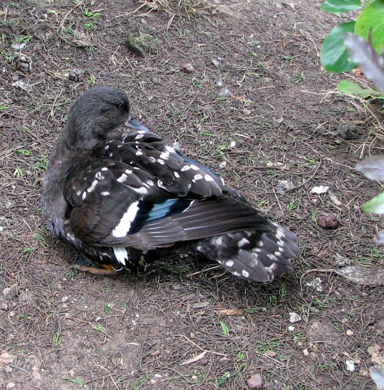 African Black Duck, Anas sparsa, photographed at San Francisco Zoo